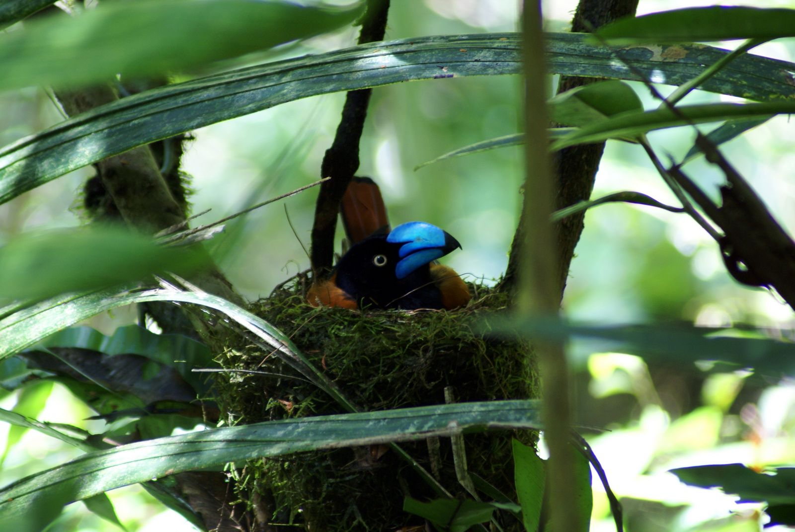 Helmet Vanga - Euryceros prevostii